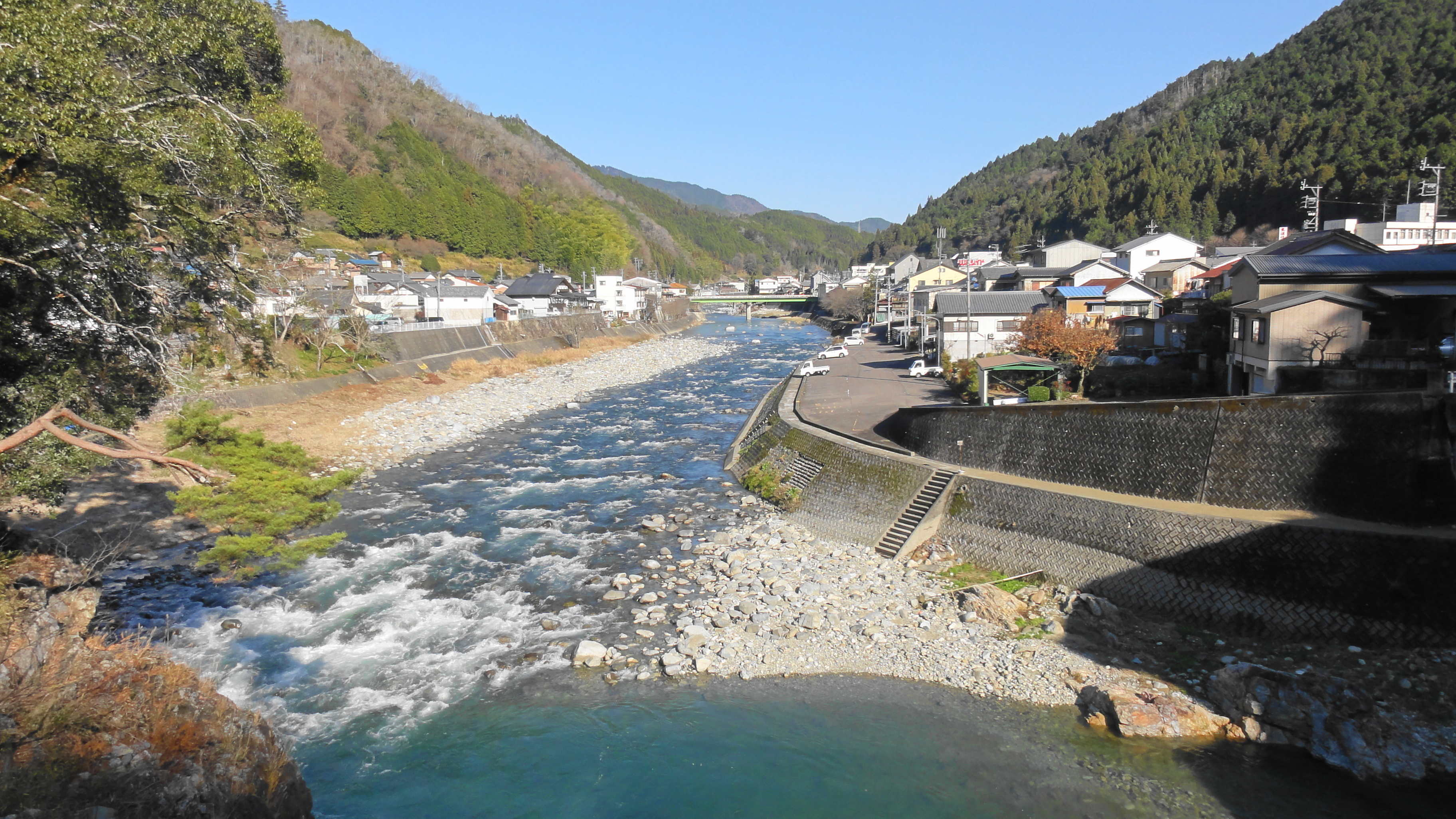 Shira-kawa River,Gifu prefecture,Japan